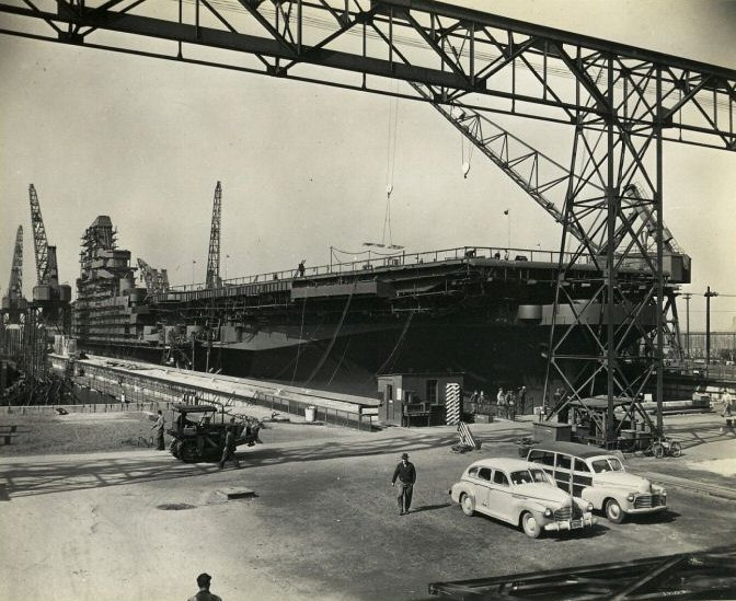 The U.S. Navy aircraft carrier USS Midway (CVB-41) under construction at Newport News Shipbuilding, Virginia (USA), 20 March 1945.